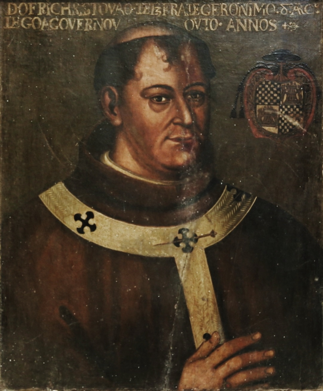 Cristóvão de Sá e Lisboa (d. 1622), Bishop of Malacca and Archbishop of Goa